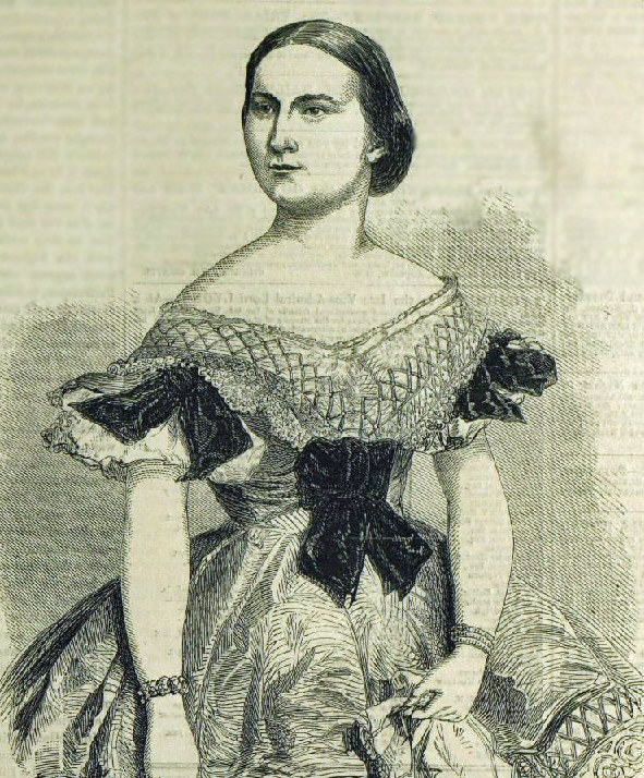 Helen Lemmens-Sherrington